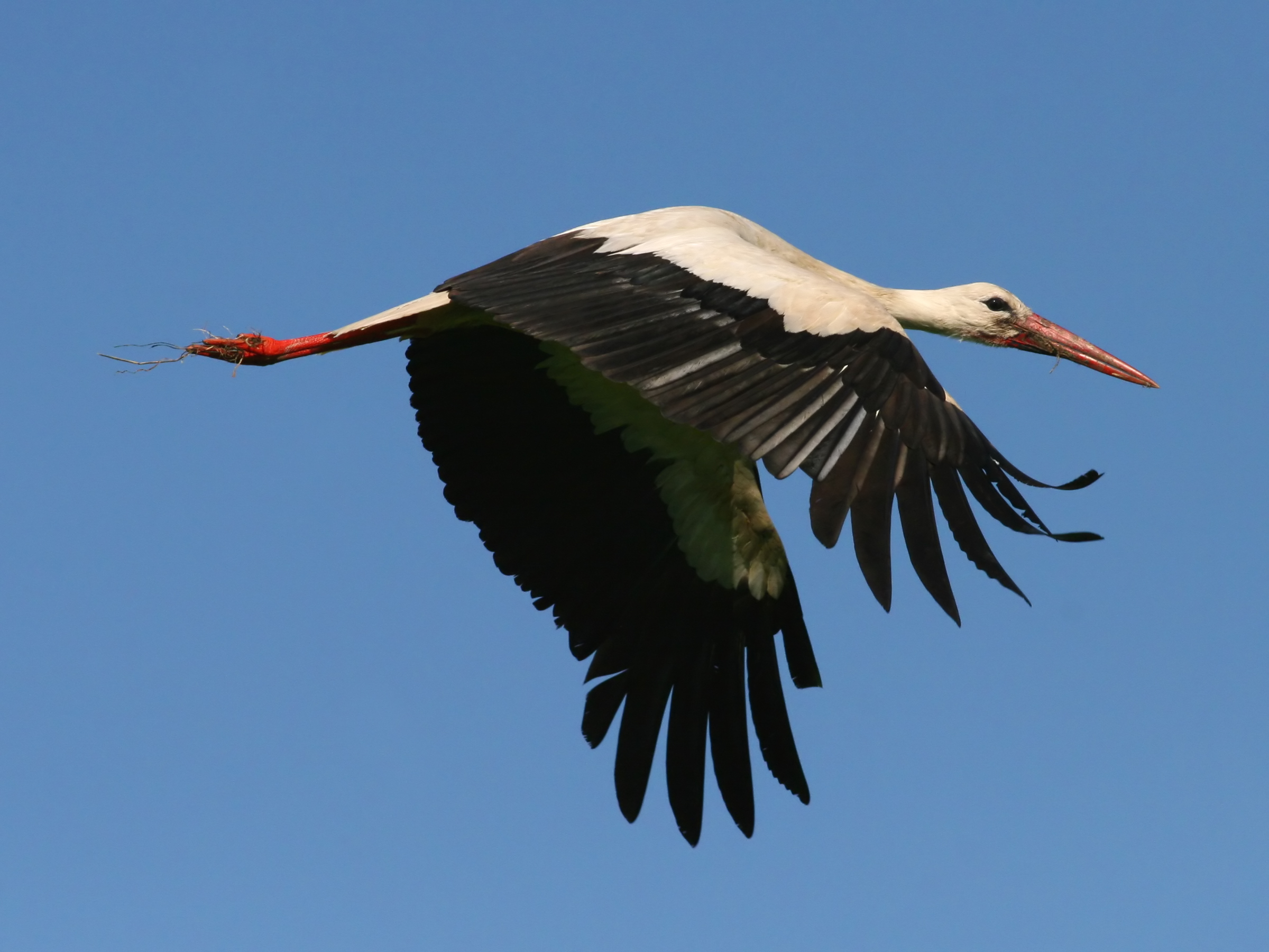 A White Stork (Ciconia ciconia) Photo taken on the Rheinspitz, Vorarlberg, Austria.